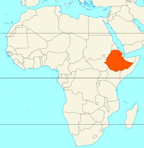 Area covered by the flora of Ethiopia and Erythrea